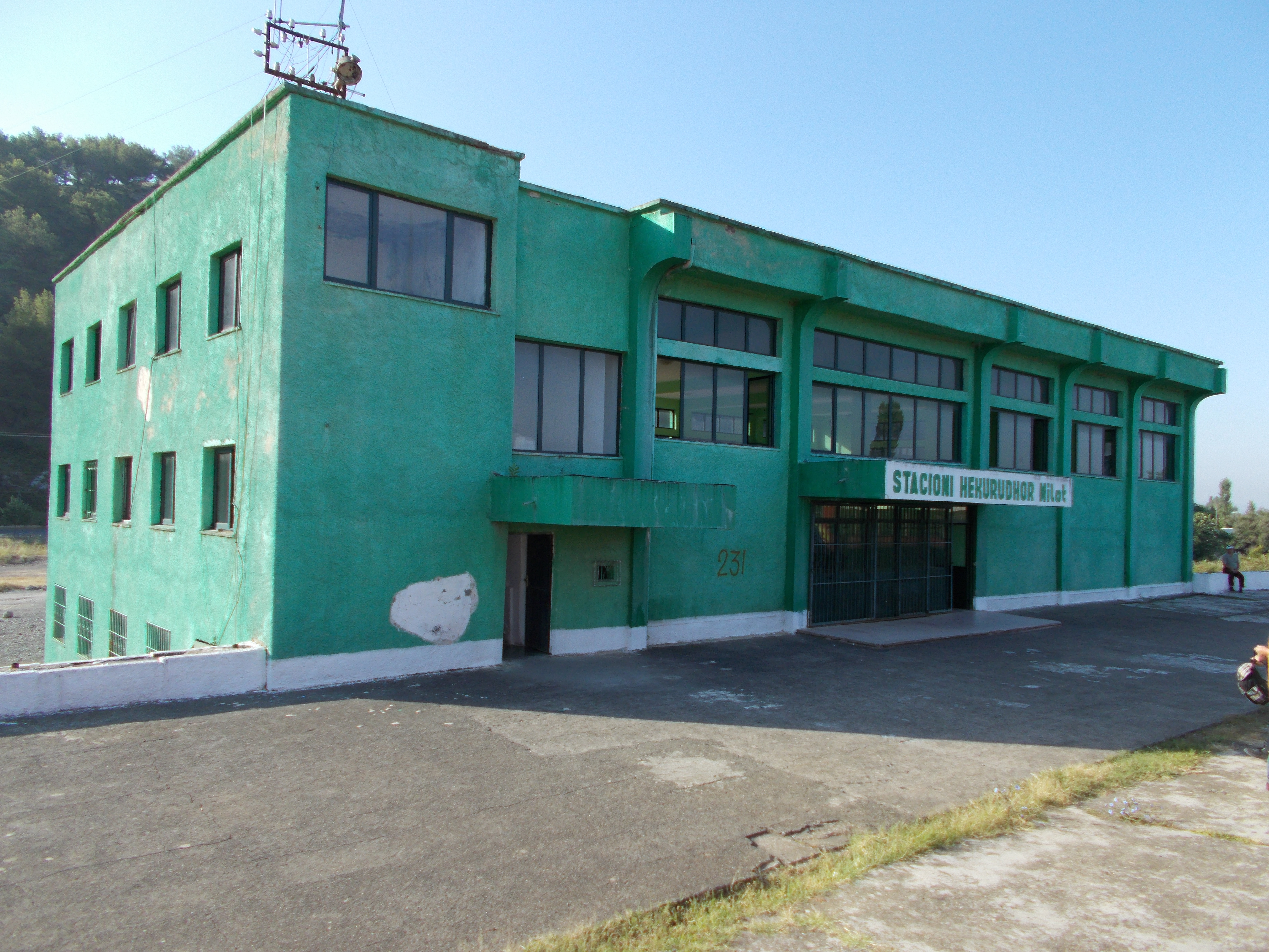 Train station Milot, Hekurudha Shqiptare, Albania